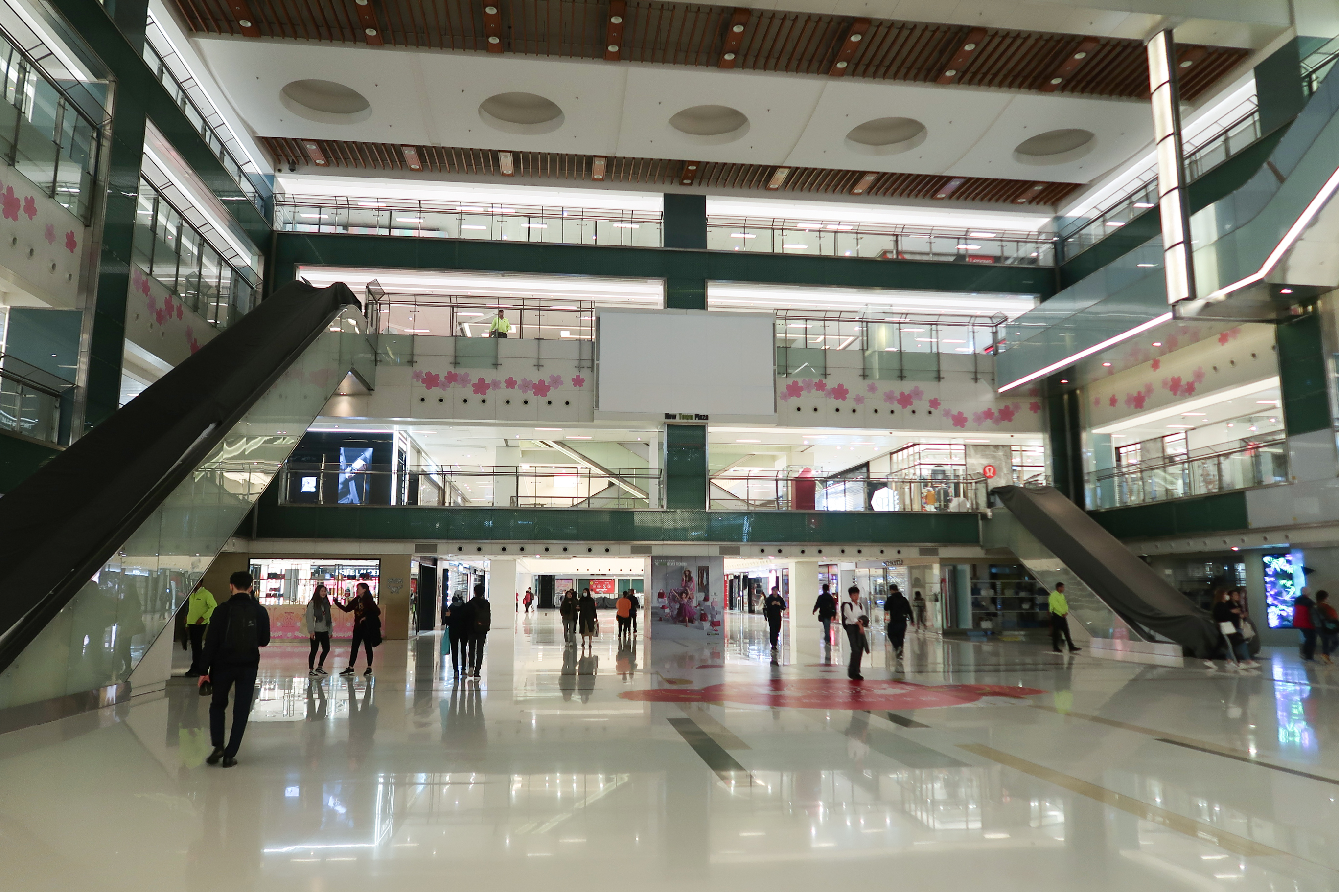 New Town Plaza Atrium new fence